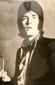 British rock band Deep Purple.